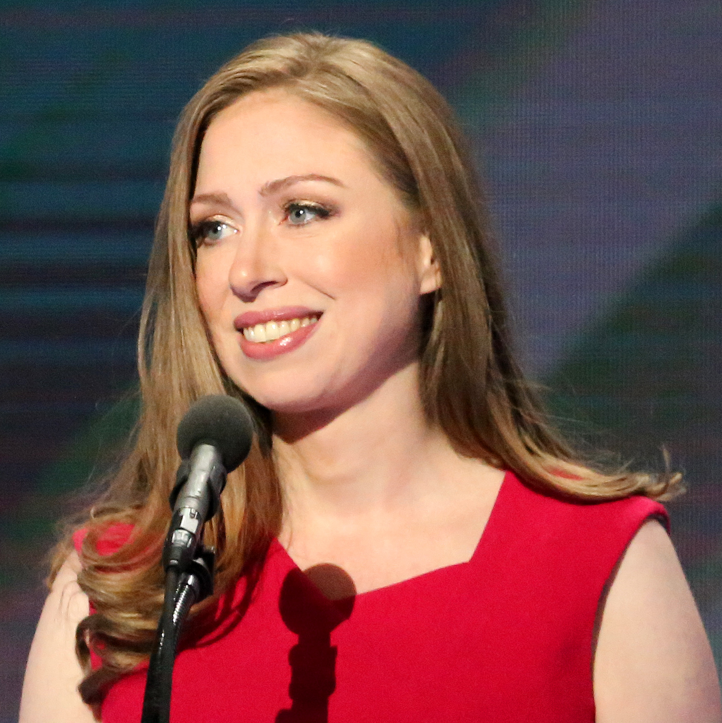 Chelsea Clinton introduces her mother, Hillary Clinton, on the final night of the Democratic National Convention in Philadelphia, July 28, 2016. (A. Shaker/VOA) )